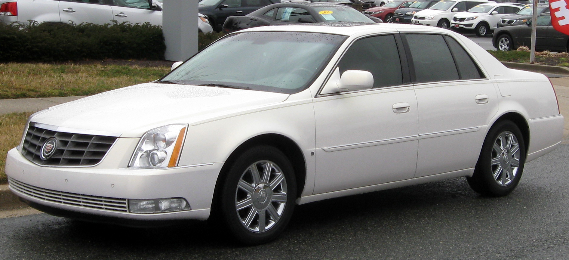 2006-2011 Cadillac DTS photographed in Silver Spring, Maryland, USA.